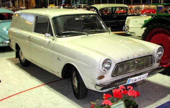 Ford Taunus 12m (P4) Commercial, 1964